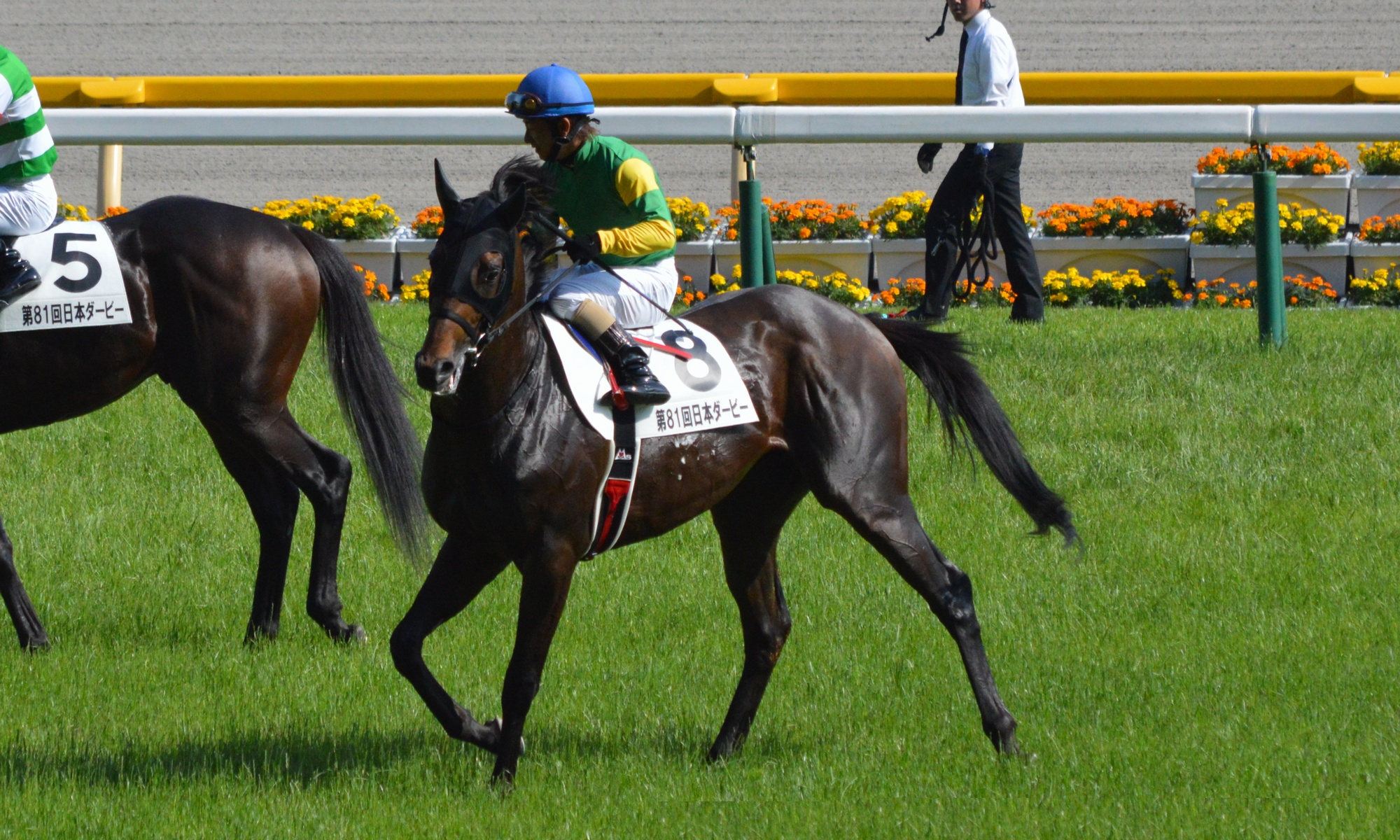 Japanese race horse Suzuka Devious at Tokyo racecourse. Tokyo (JPN) 01 Jun 2014Tokyo Yushun (Japanese Derby) (Grade 1) (3yo Colts & Fillies) (Turf) 1m4f Firm RankHorse NameOddsAgeWgtTrainerJockey1stOne And Only (JPN)23/5C39-0Kojiro HashiguchiNorihiro Yokoyama2ndIsla Bonita (JPN)17/10FC39-0Hironori KuritaMasayoshi Ebina3rdMeiner Frost (JPN)107/1C39-0Noboru TakagiMasami Matsuoka4th - 8th/10th - 18th/omission9thSuzuka Devious (JPN)203/1C39-0Mitsuru HashidaManabu Sakai